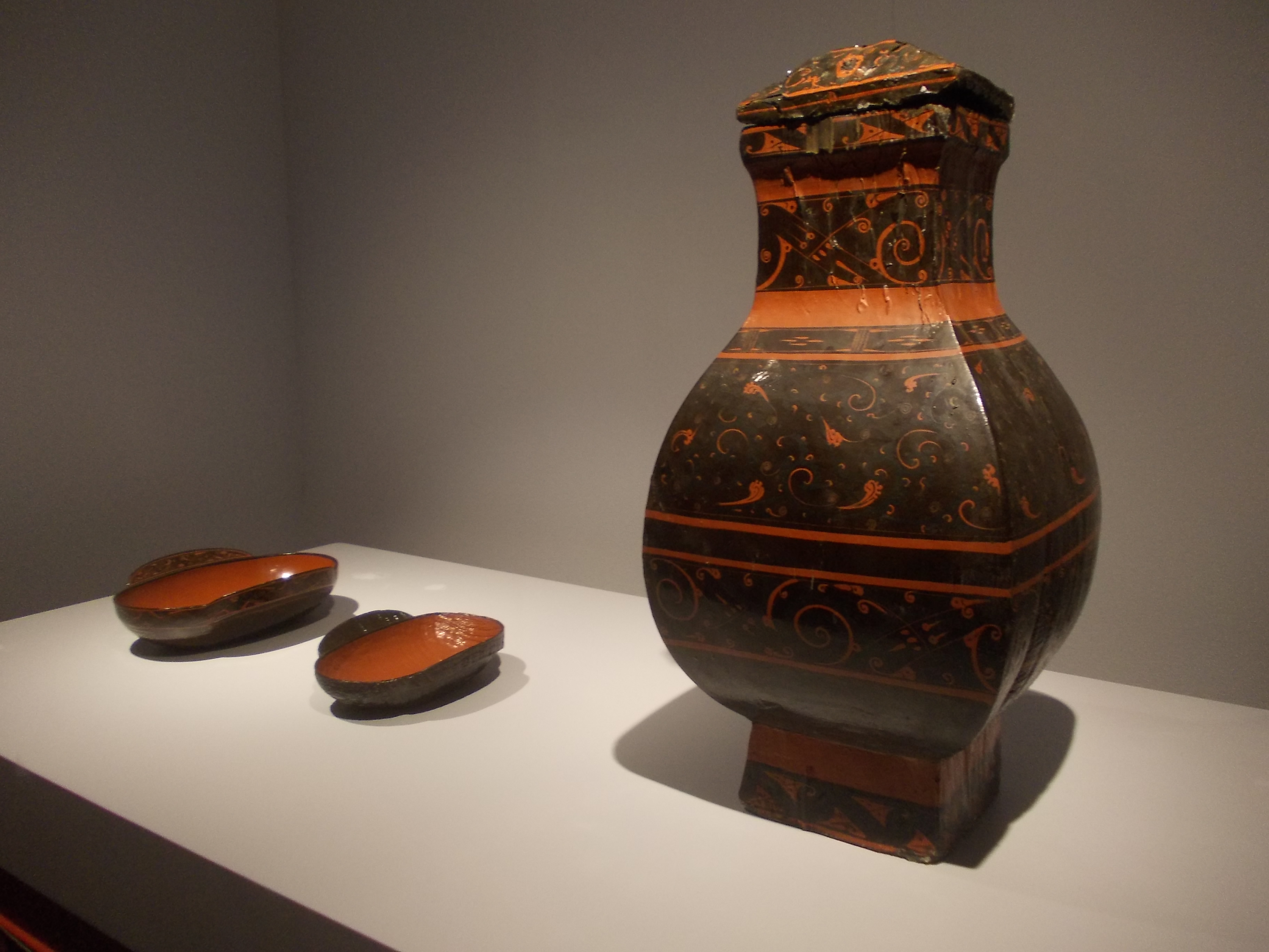 Laquer pottery found at Mawangdui